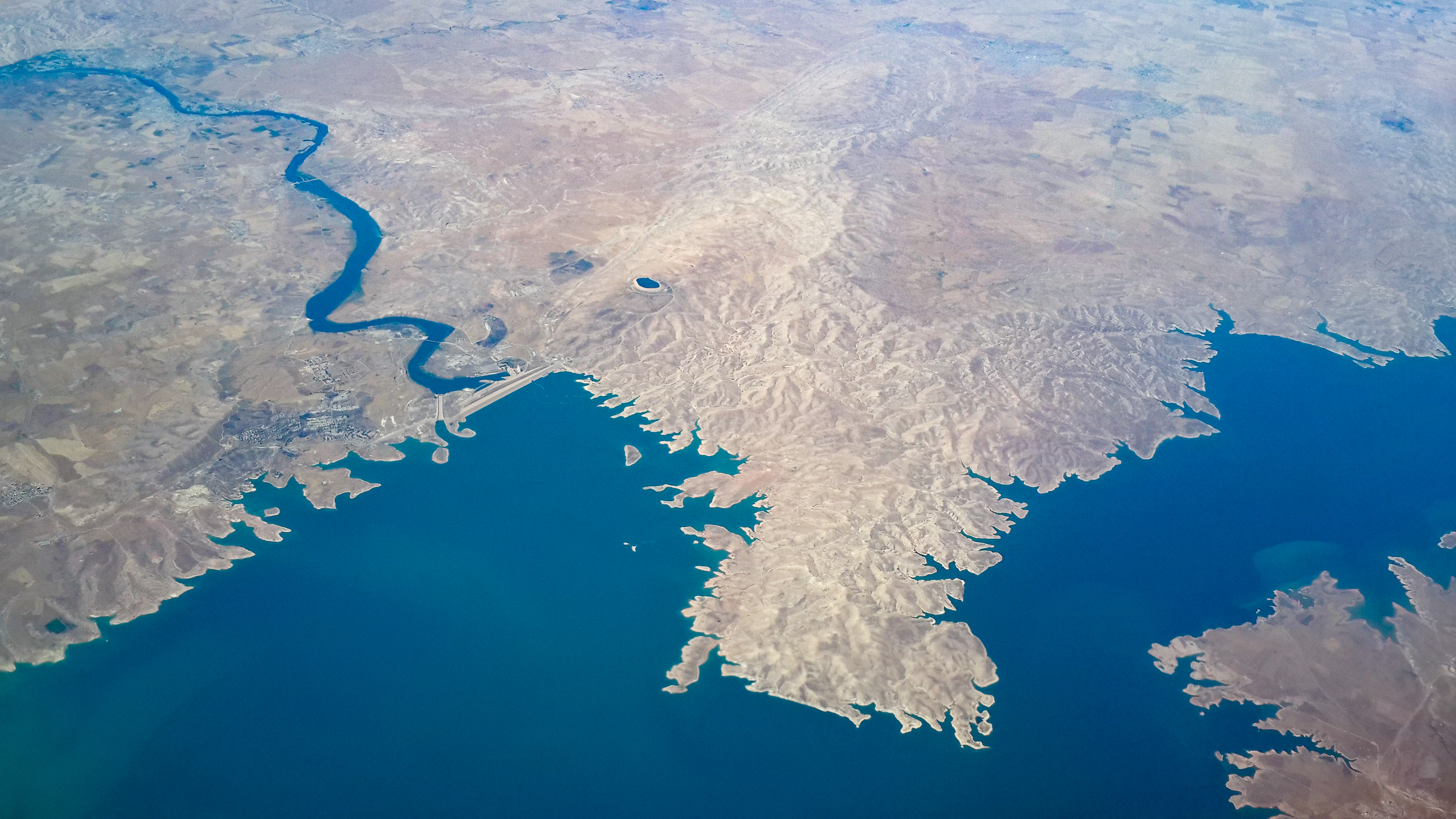 Aerial photo of Mosul dam, hydroelectric project and lake in Iraq.